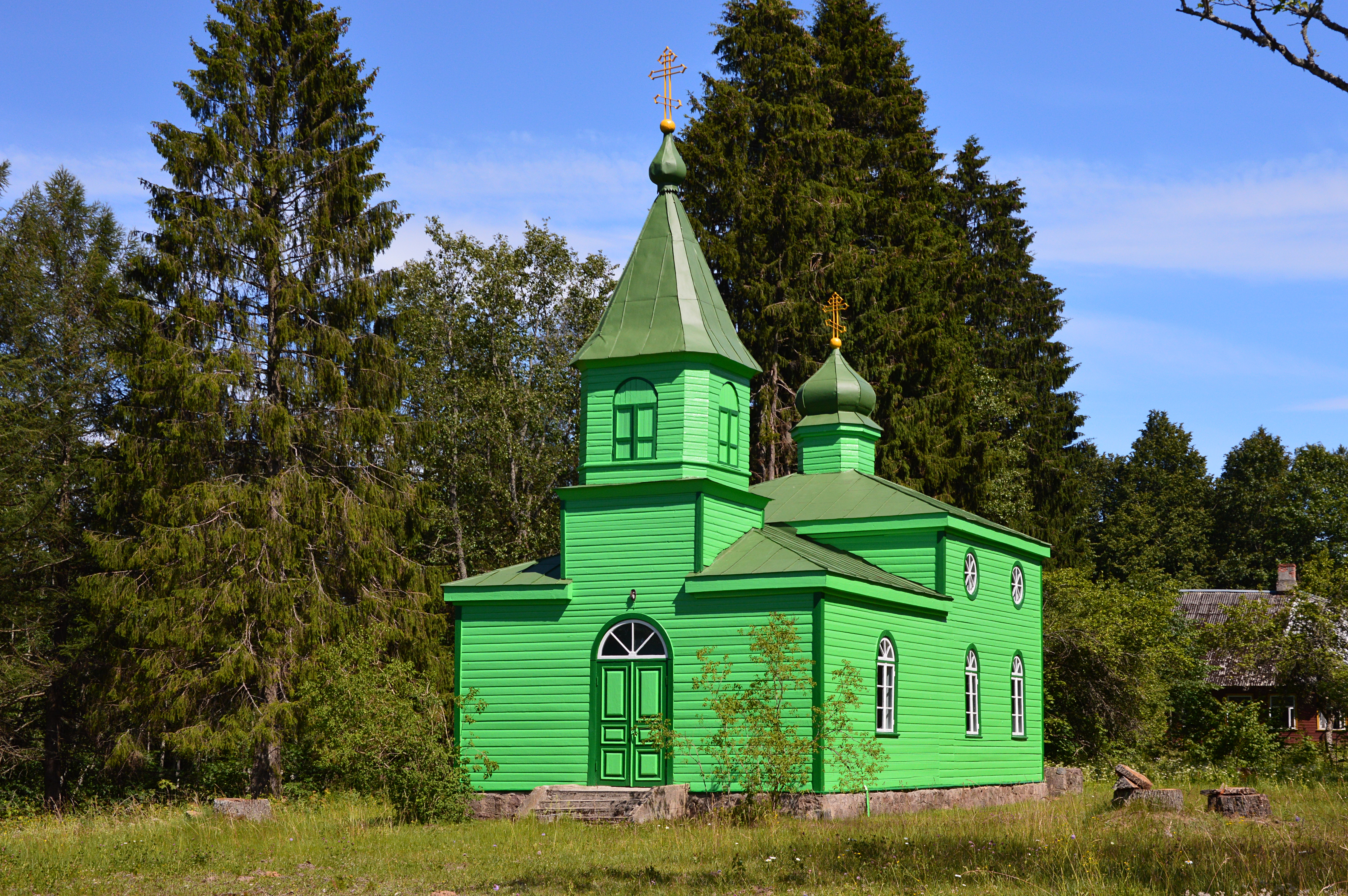 Laiksaare orthodox church in Urissaare village.